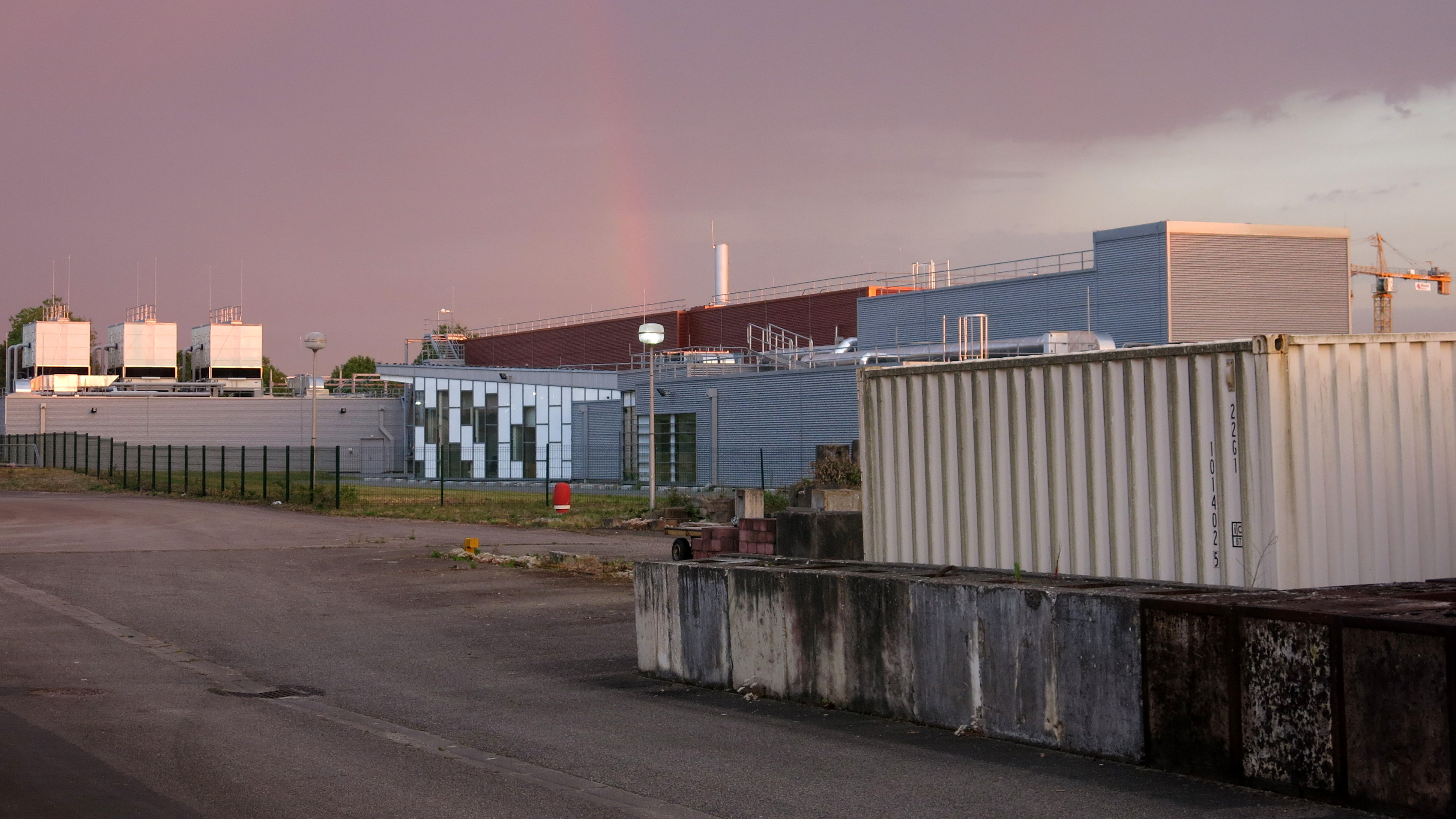 View on the Spiral 2 building of the GANIL complex in Caen, France.